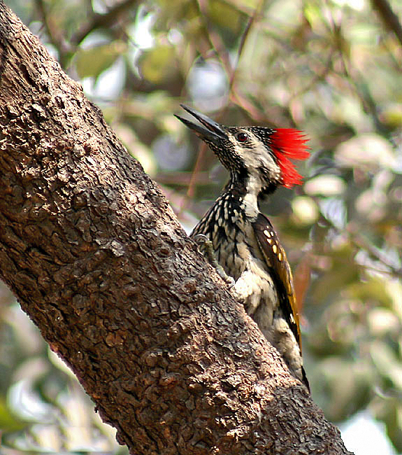 Black-rumped Flameback Dinopium benghalense in Kolkata, West Bengal, India.